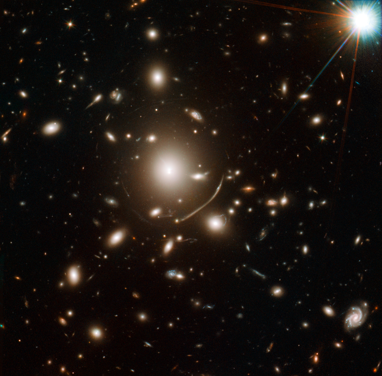 Picture from hubble